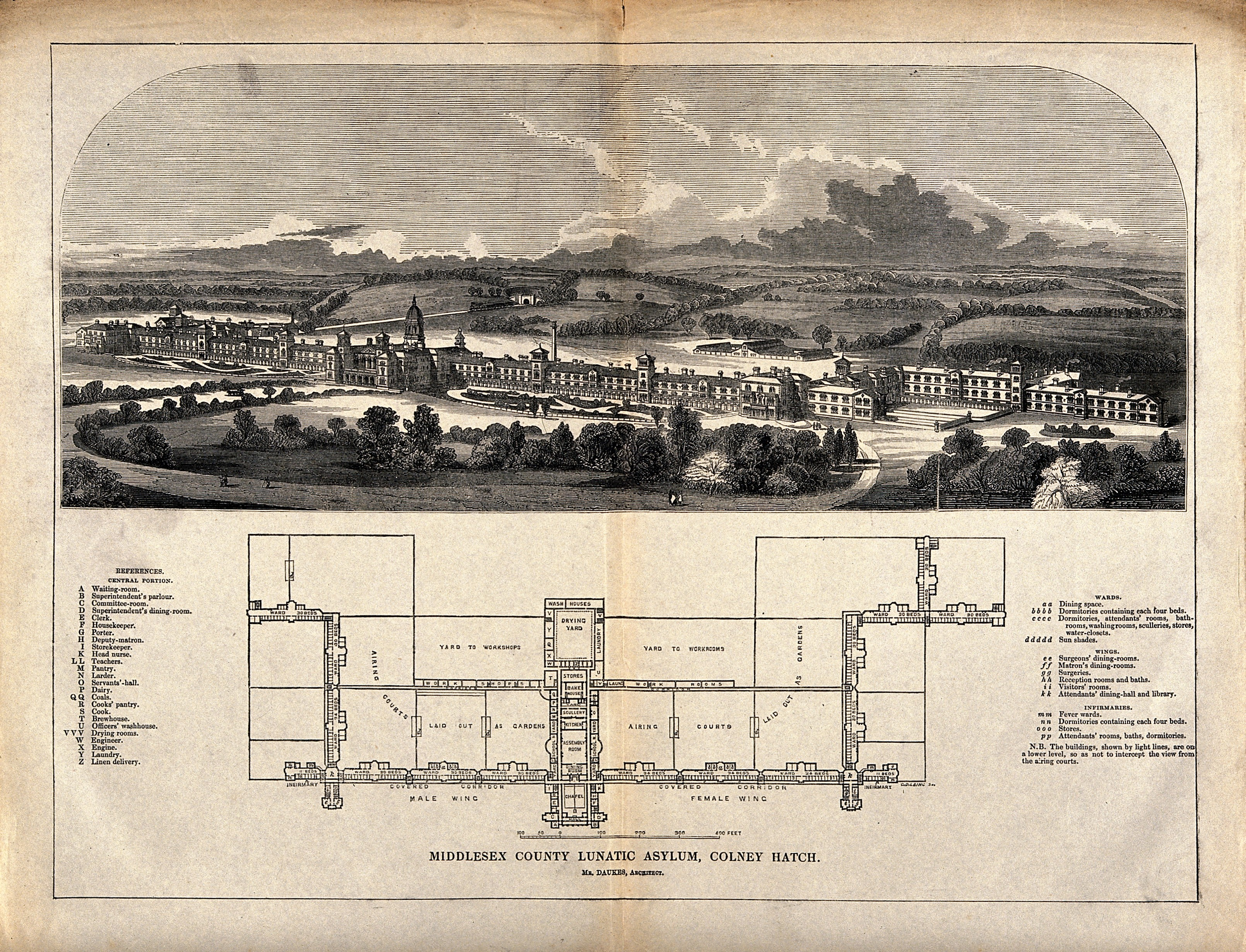 Middlesex County Lunatic Asylum, Colney Hatch, Southgate, Middlesex: bird's eye view with detailed floor plan and key. Wood engraving by Laing after Daukes. Iconographic Collections Keywords: Charles D. Laing; Samuel Whitfield Daukes